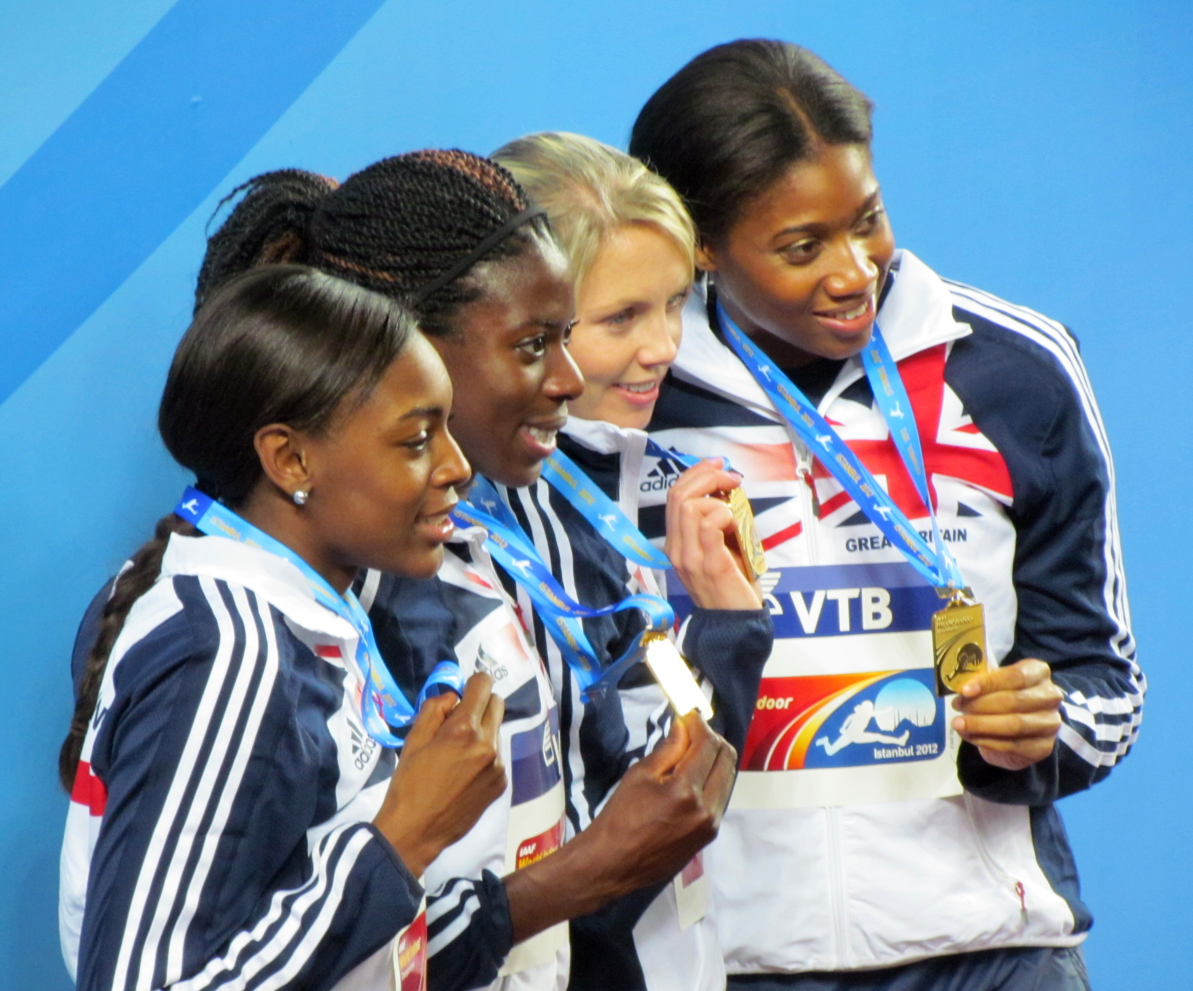 The 2012 IAAF World Indoor Championships in Athletics was the 14th edition of the global-level indoor track and field competition and was held between March 9–11, 2012 at the Ataköy Athletics Arena in Istanbul, Turkey. Perri Shakes-Drayton, Christine Ohuruogu, Nicola Sanders, Shana Cox